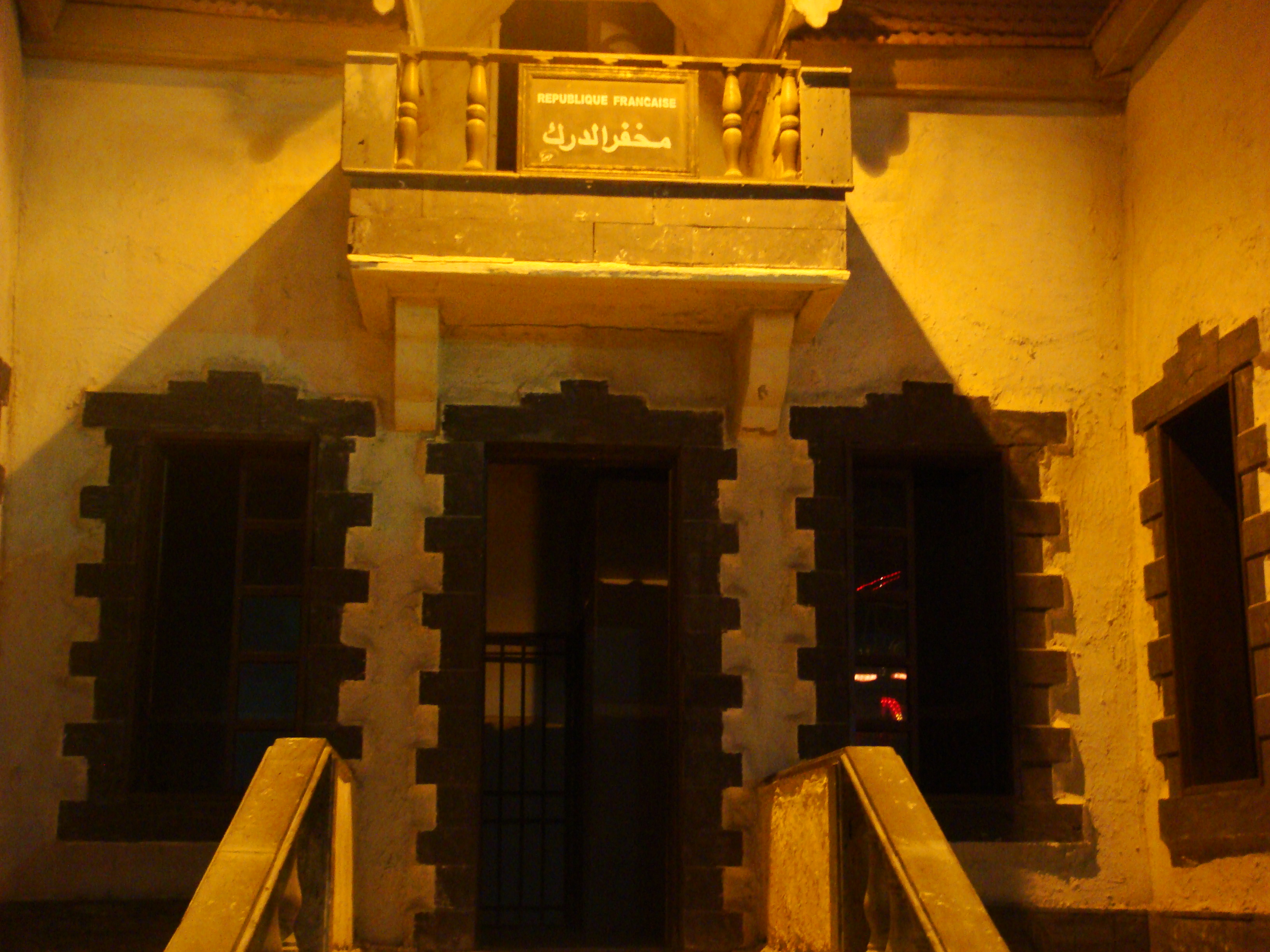 police station